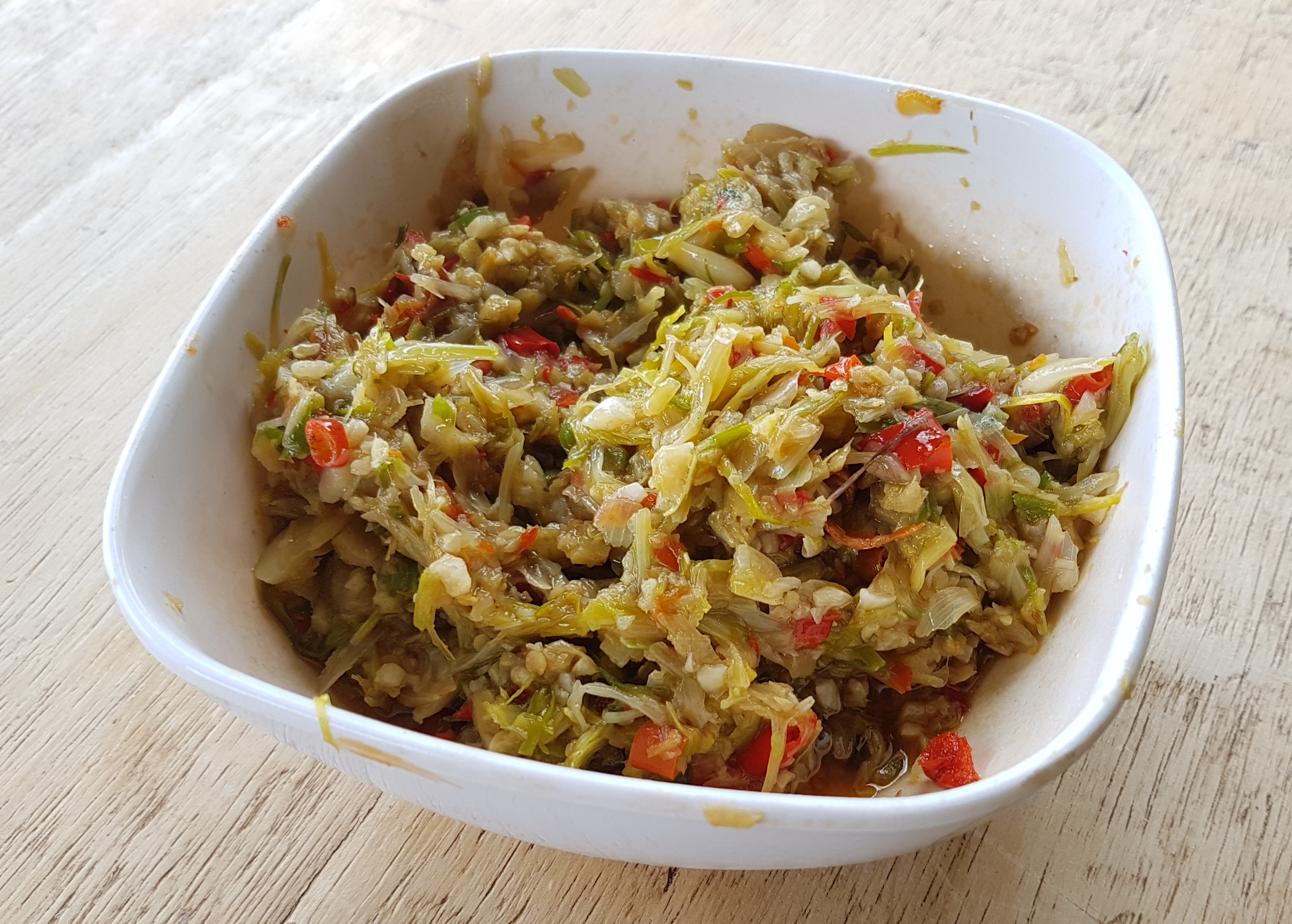 Palapa, a spicy condiment from the Maranao people of the Philippines consisting of chopped sakurab (white scallions), ginger, chilis, and other spices.